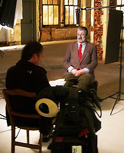 Philadelphia hockey historian Bruce "Scoop" Cooper (the image's uploader) being interviewed for the HBO Sports documentary film "Broad Street Bullies" by George Roy, the film's producer, at the then under renovation century old "Robert Morris Hotel", 17th & Arch Streets, Philadelphia. PA. May 19, 2009